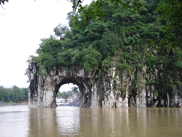 Picture taken by myself